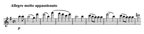 1st Theme of 1st movement of Mendelssohn's Violin Concerto op.64